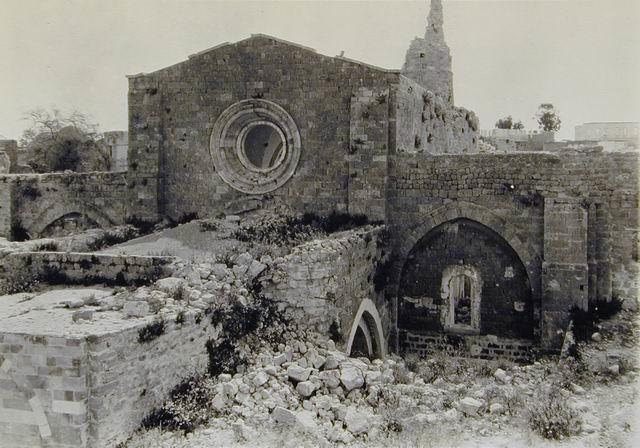 Western facade of the Great Mosque of Gaza after British bombardment in 1917